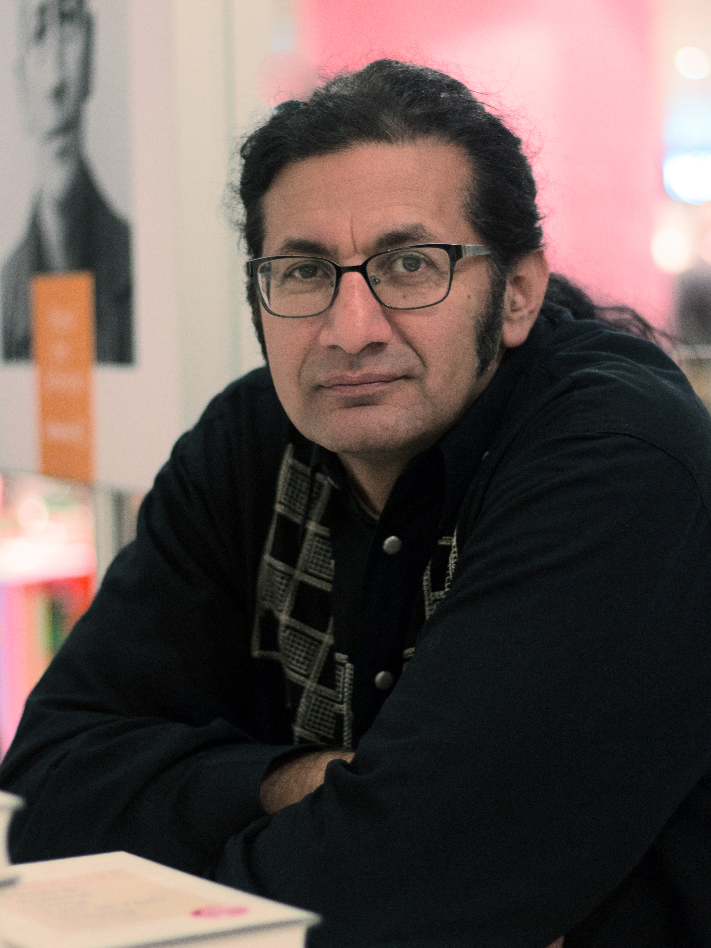 Rodaan Al Galidi at Feest der Letteren 2016